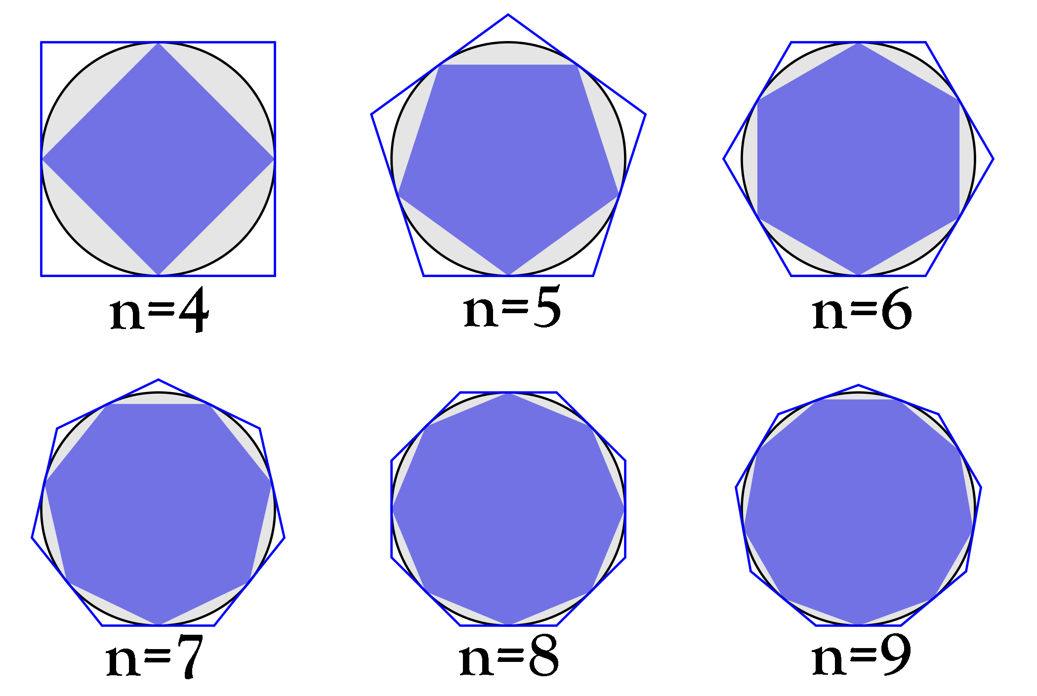 Illustration of polygon method to calculate pi.